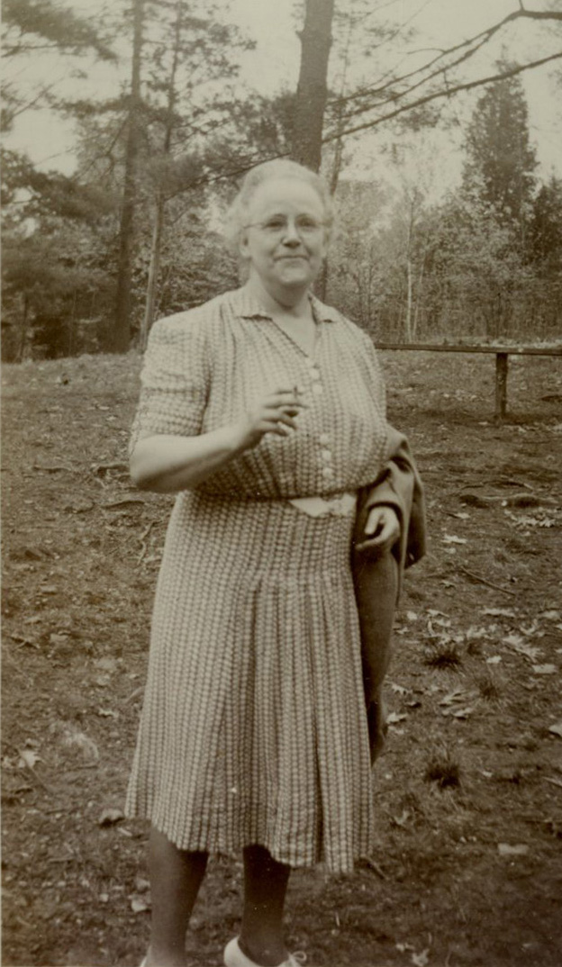 Photograph of women chemist Mary Lura Sherrill, 1945.